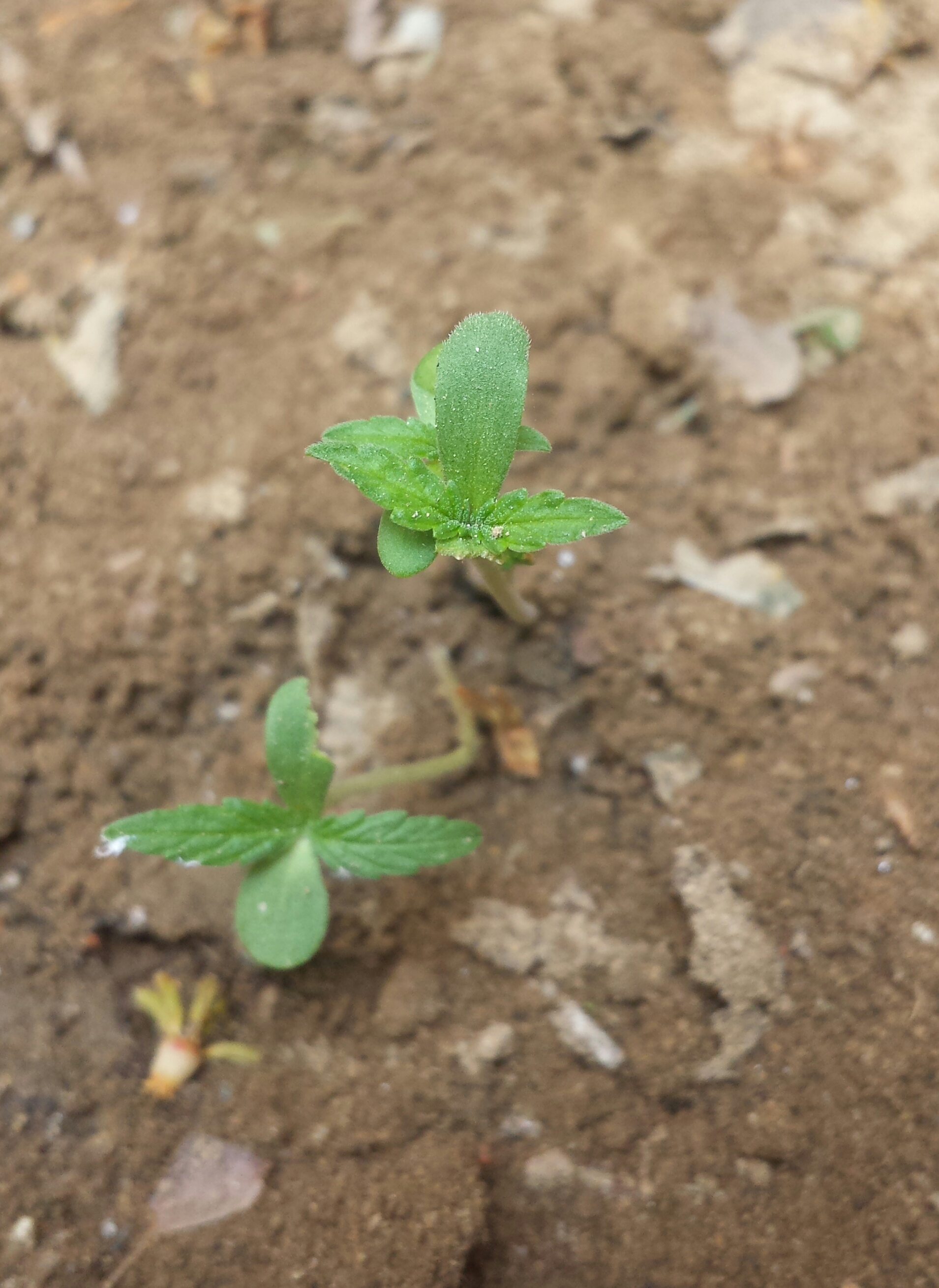 New born Cannabis plant. Cannabis plantation is illegal in Bangladesh according to the Narcotics Control Act, 1990. These plants were later destroyed with an order from the executive Magistrate.